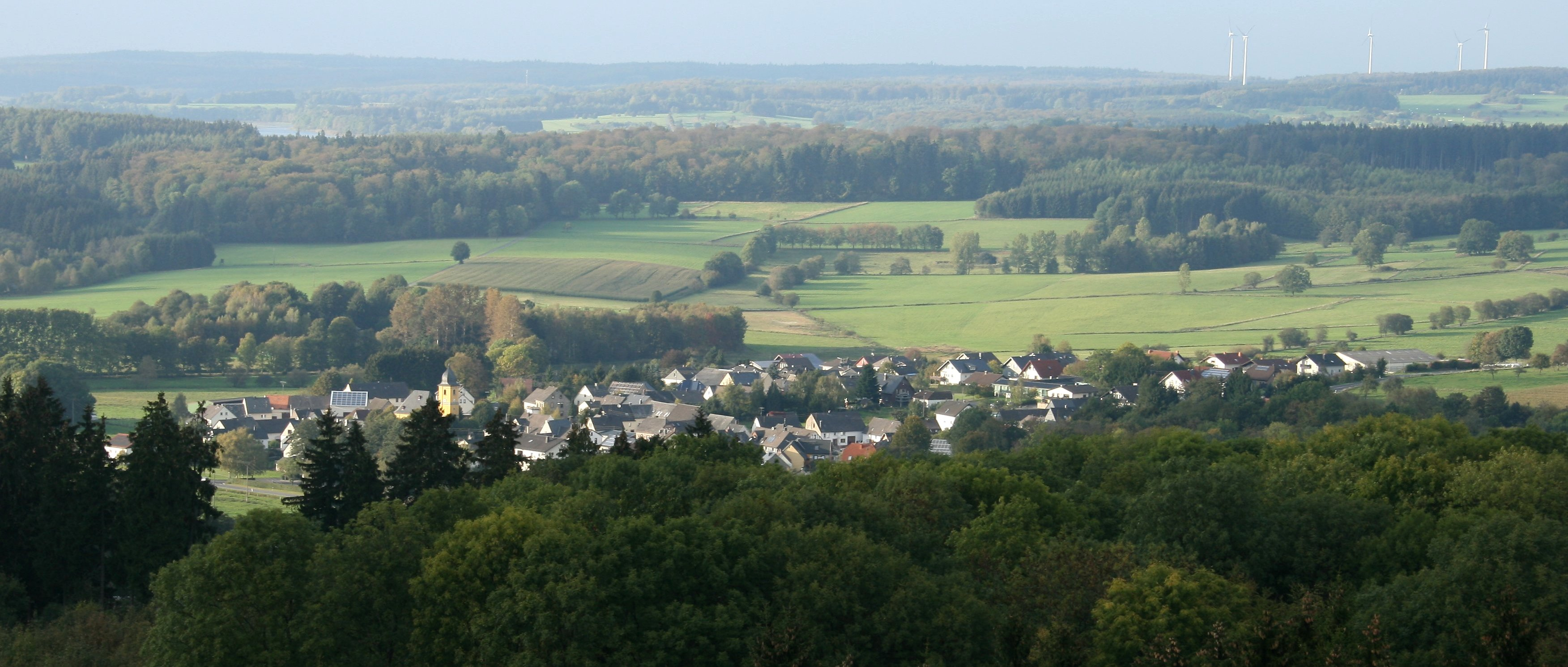 View over Wölferlingen village in Westerwald, Rhineland-Palatinate, Germany. Seen from the Helleberg mountain